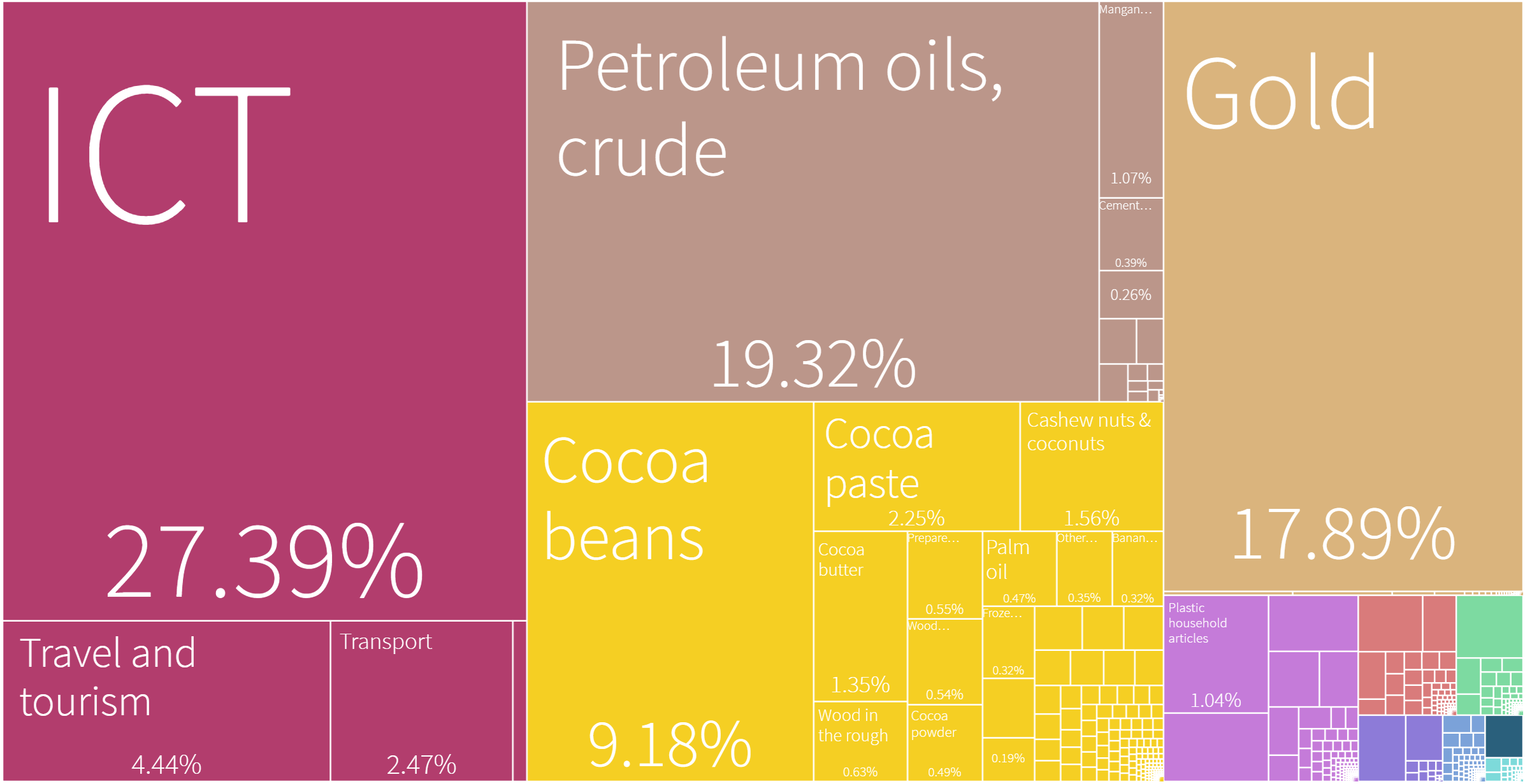 2017 Ghana Products Export Treemap